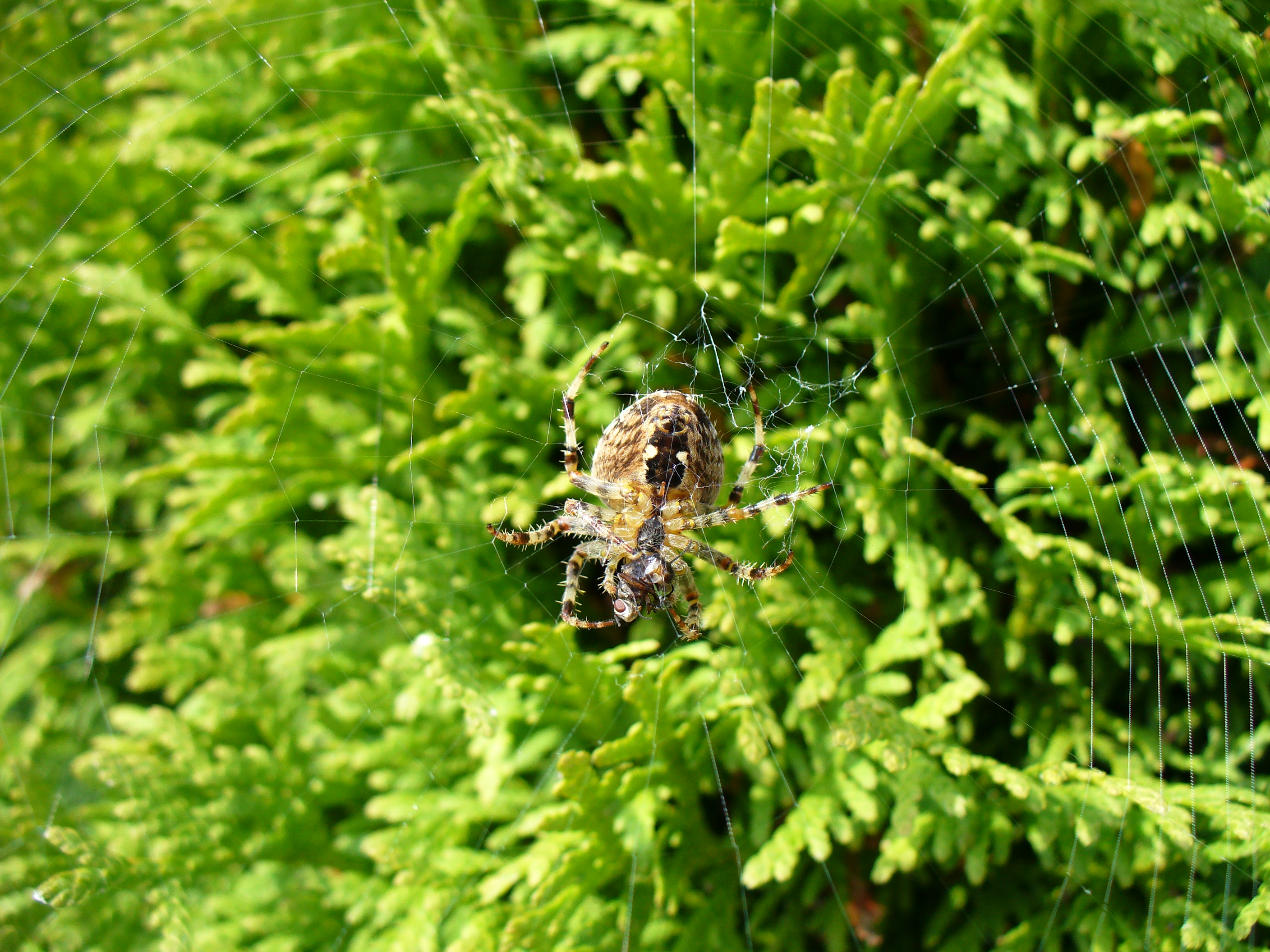 I am the originator of this photo. I hold the copyright. I release it to the public domain. This photo depicts a spider.